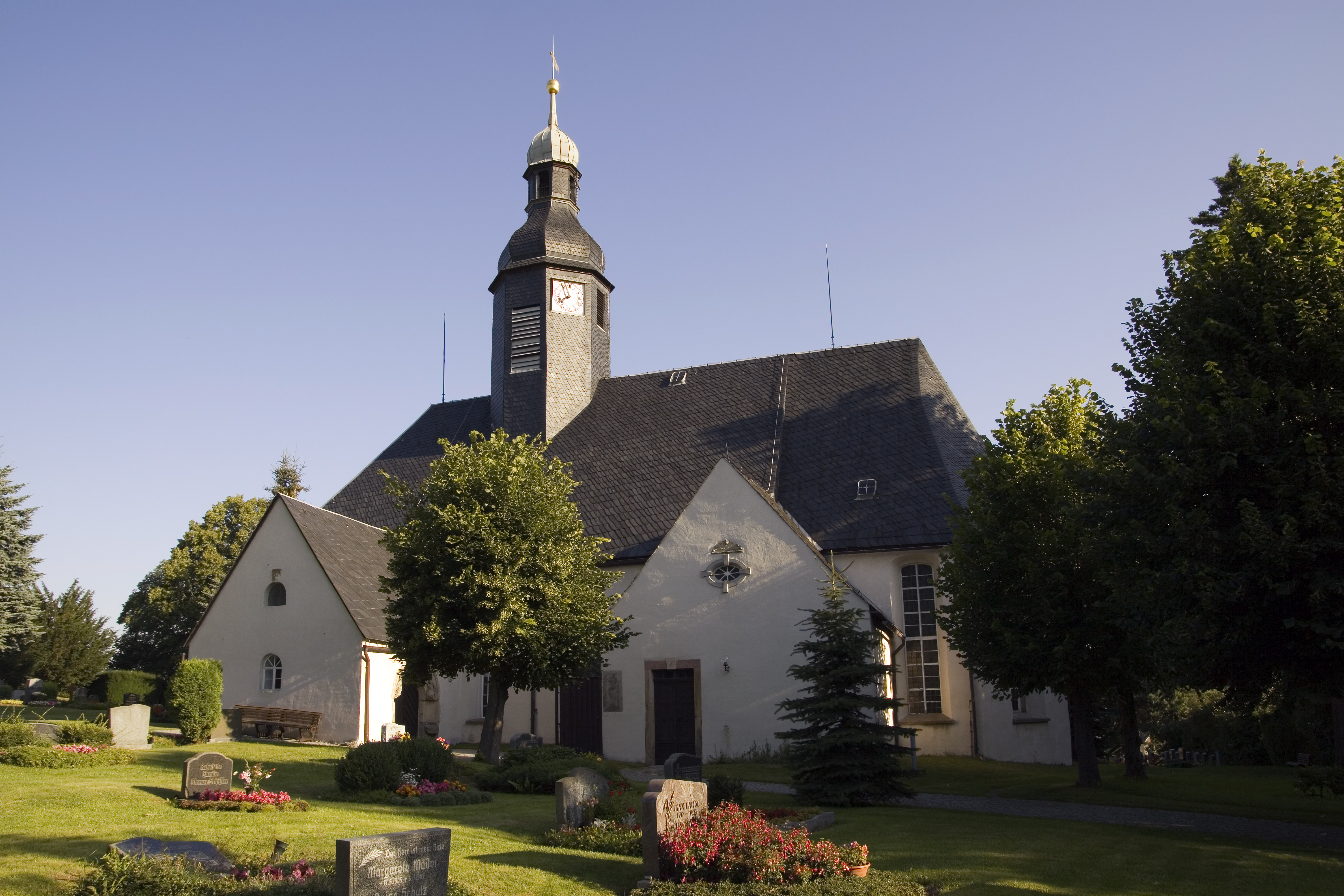 Langenau, part of Brand-Erbisdorf, church